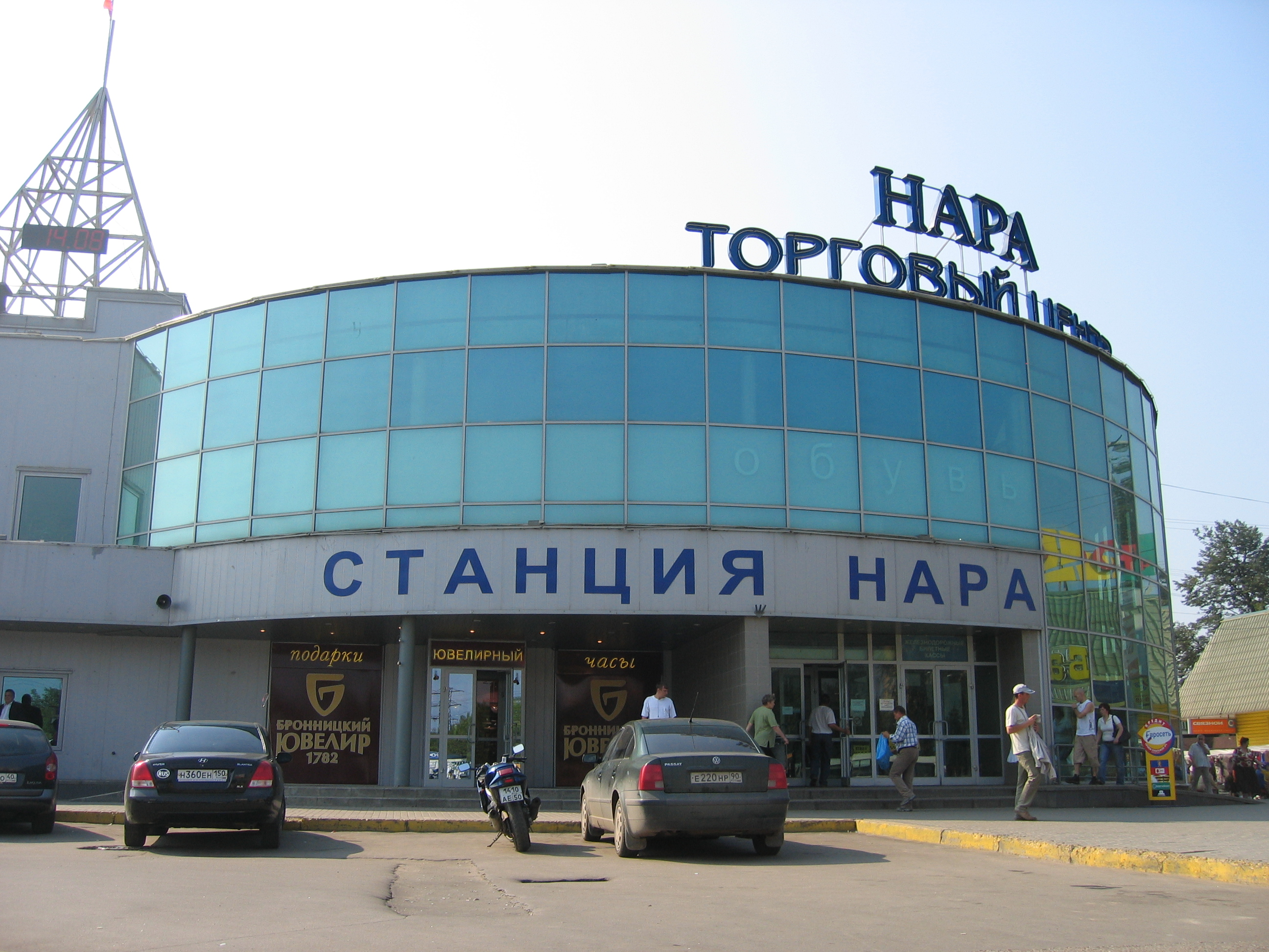 Train station Nara in Naro-Fominsk, Russia